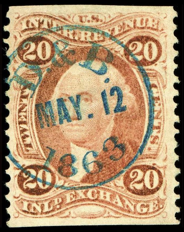 Image of U.S. Revenue stamp, Washington, 20-cents (Scotts# R42b)